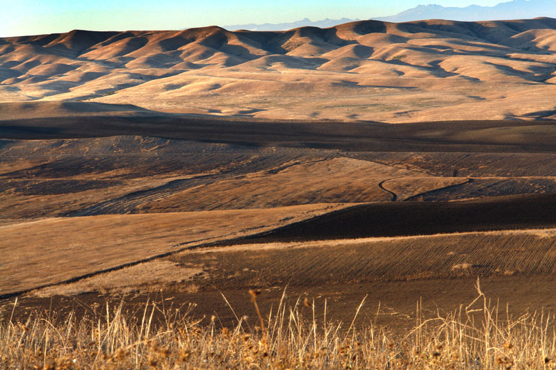 Vashlovani National Park in Georgia